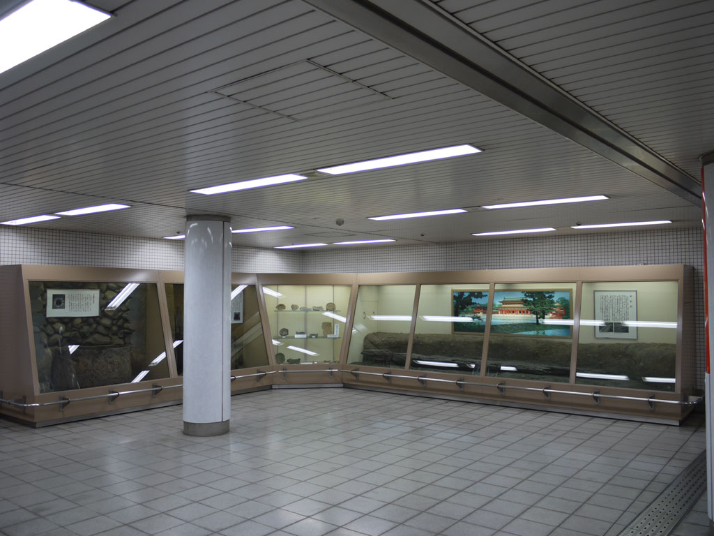 Kyoto Subway Tōzai Line Nijojo-mae Station Museum